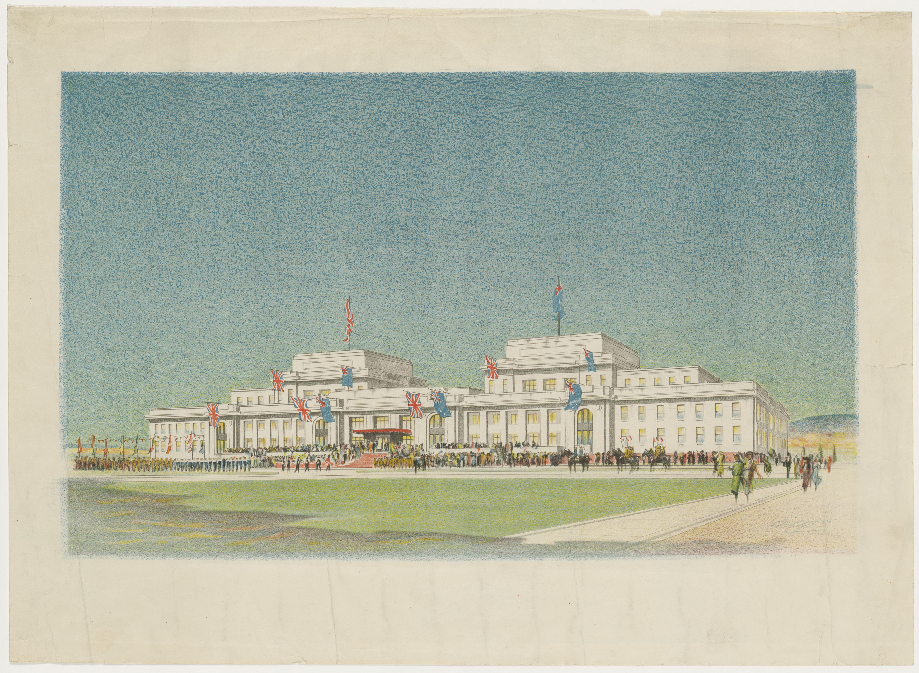 Commemorative picture: the opening of the first Commonwealth Parliament at Canberra, on May 9, 1927, by his Royal Highness the Duke of York, lithograph printed by Offset Press Company. Courtesy of the State Library of New South Wales, Sydney.